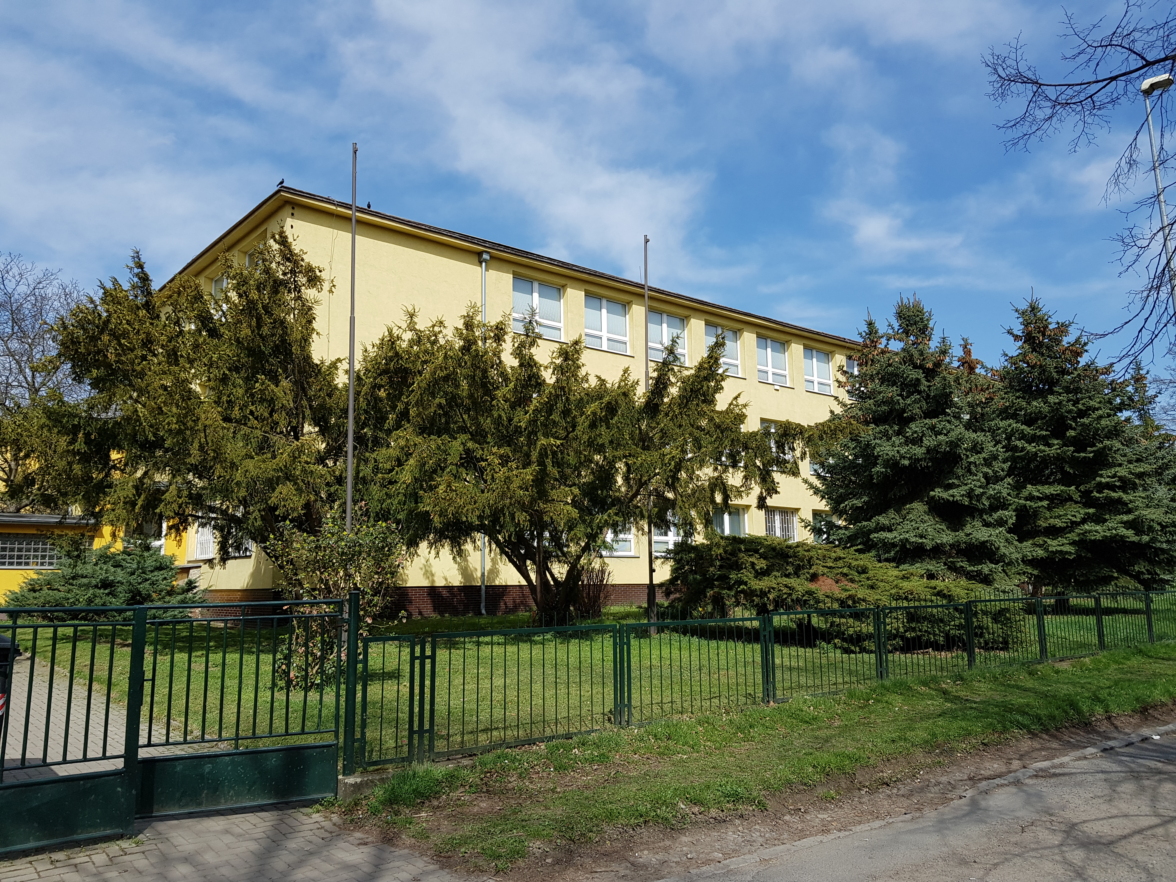 The Elementary School Tolerance, Mochovská Street, Prague 14 - Hloubětín